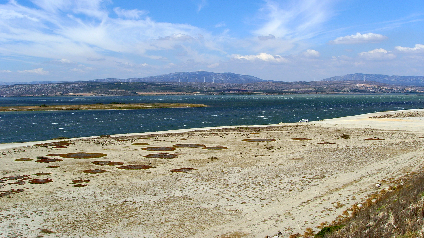 Leucate, Aude, France: view over the "Étang de Leucate ou de Salses" from the bridge near Port Leucate photographer: Gerbil, summer 2006